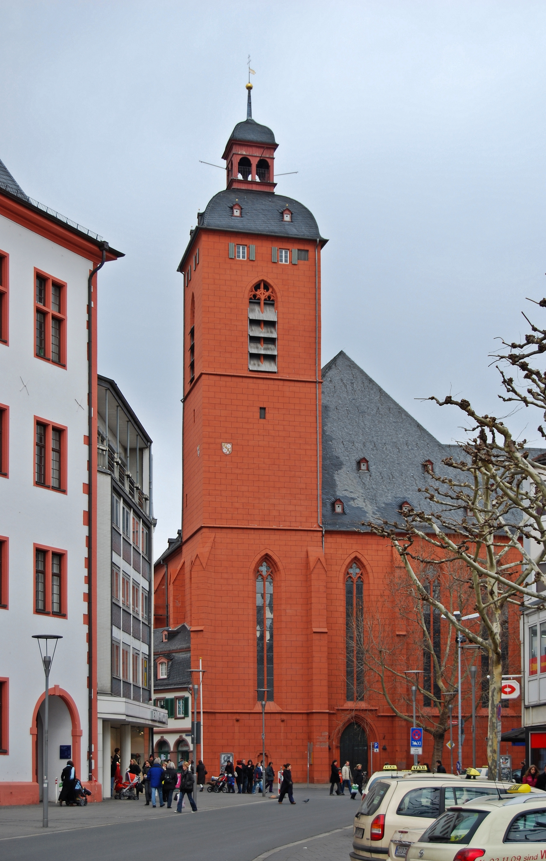 Church St. Quintin, Mainz, Rhineland-Palatinate.